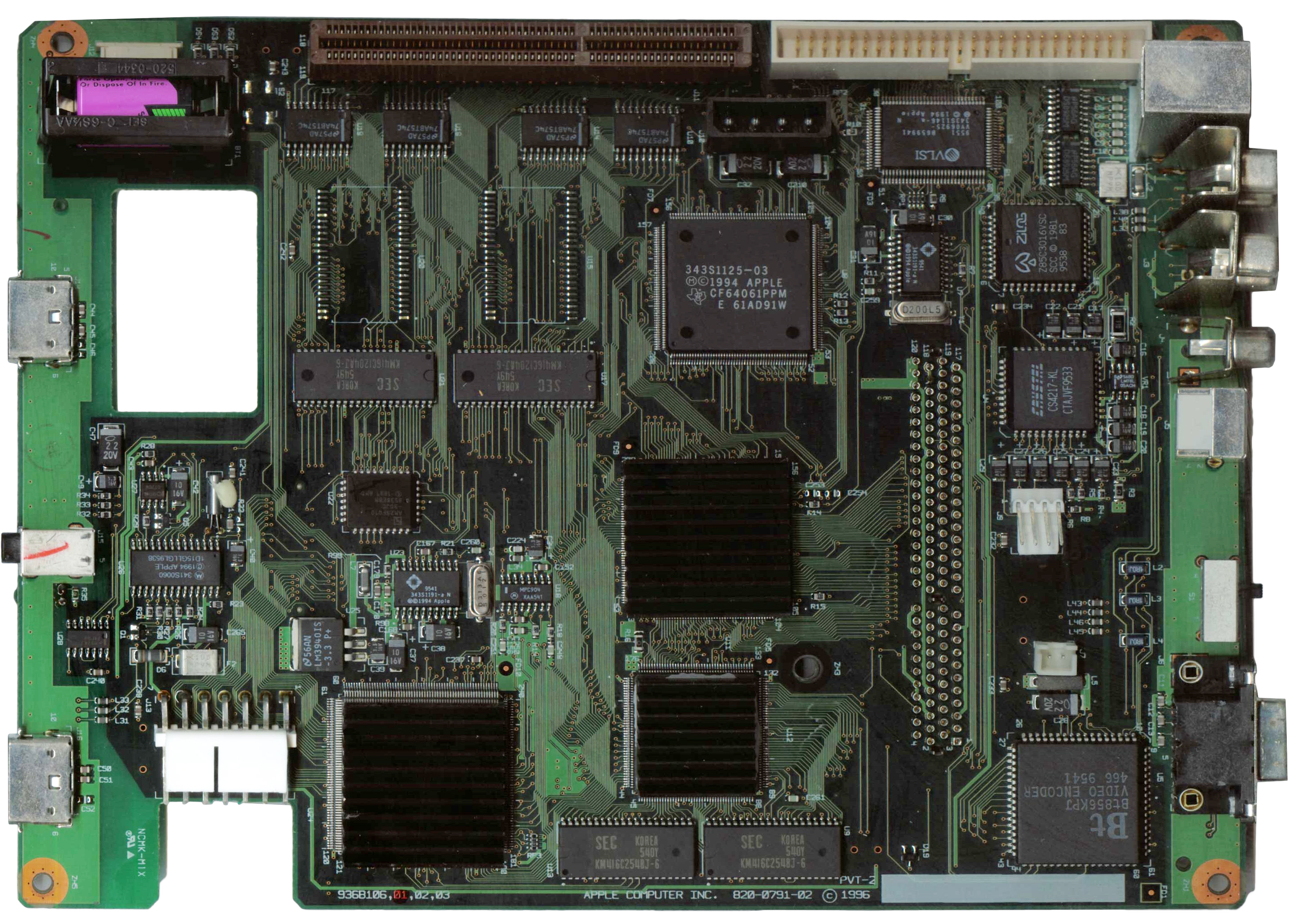 Scan of the Bandia/Apple Pippin games conosle PCB.